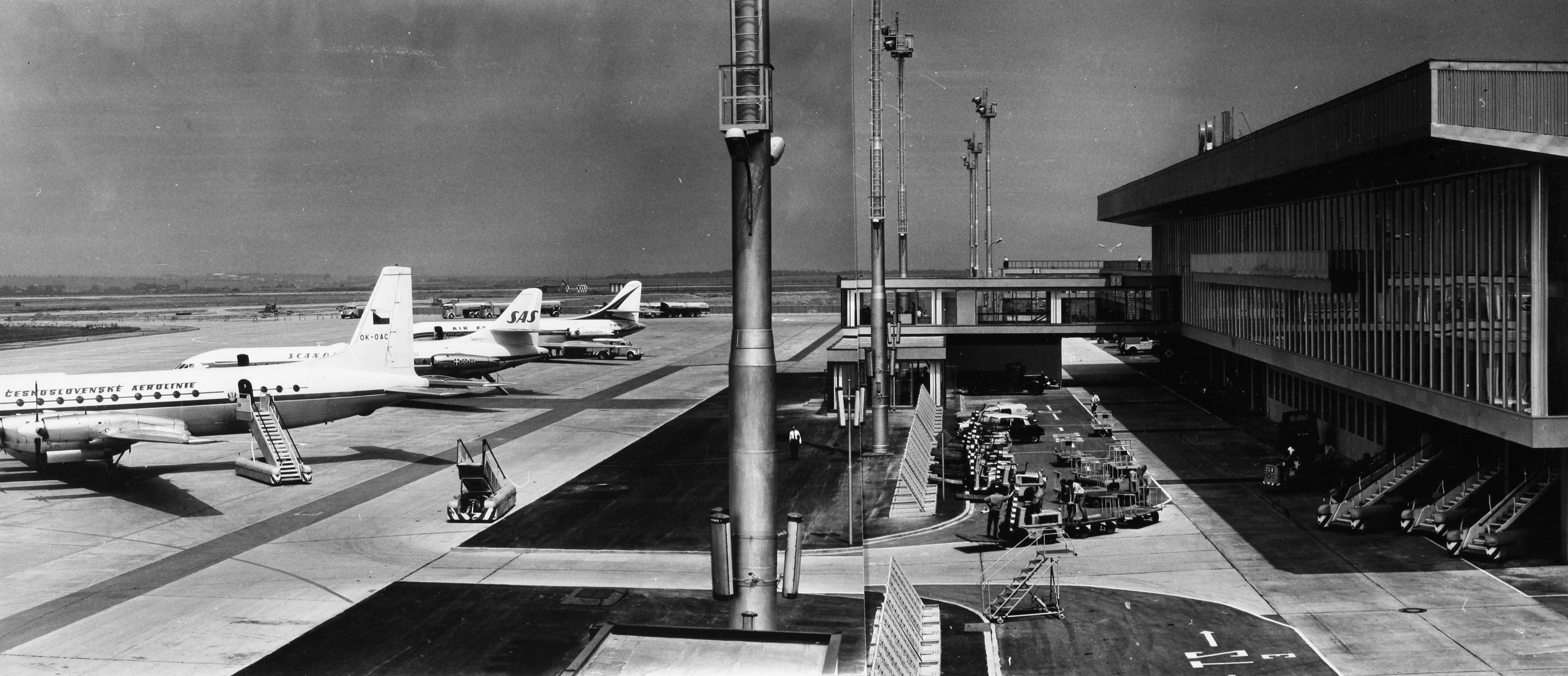 A CSA Ilyushin Il-18, SAS Caravelle and Air France Caravelle at Prague Ruzyně Airport. This photo was taken on the day that SAS inaugurated service to the Czechoslovak capital. The terminal visible in the photo was also opened on the same day.